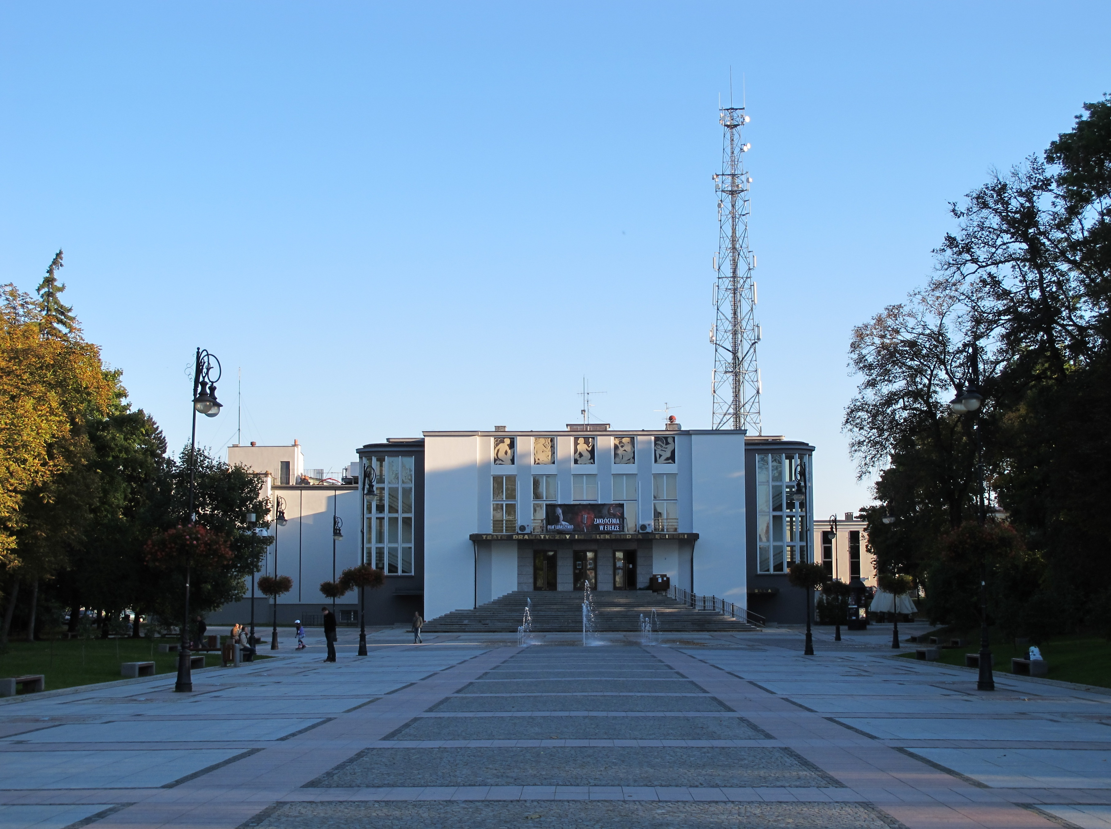 Wegierko Drama Theatre in Białystok, Elektryczna 12 street, podlaskie, Poland